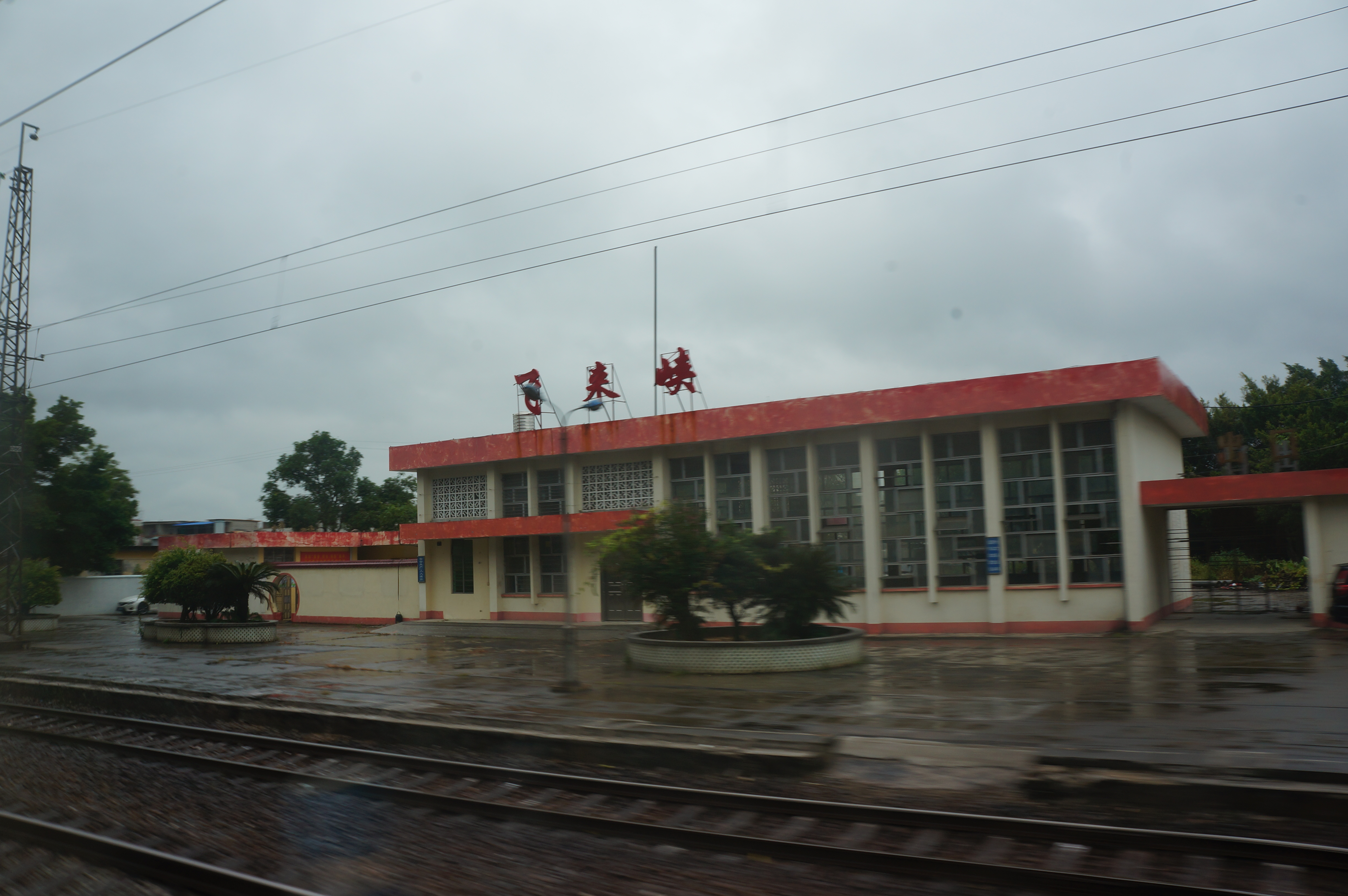 201609 Conductor of Feilaixia Station